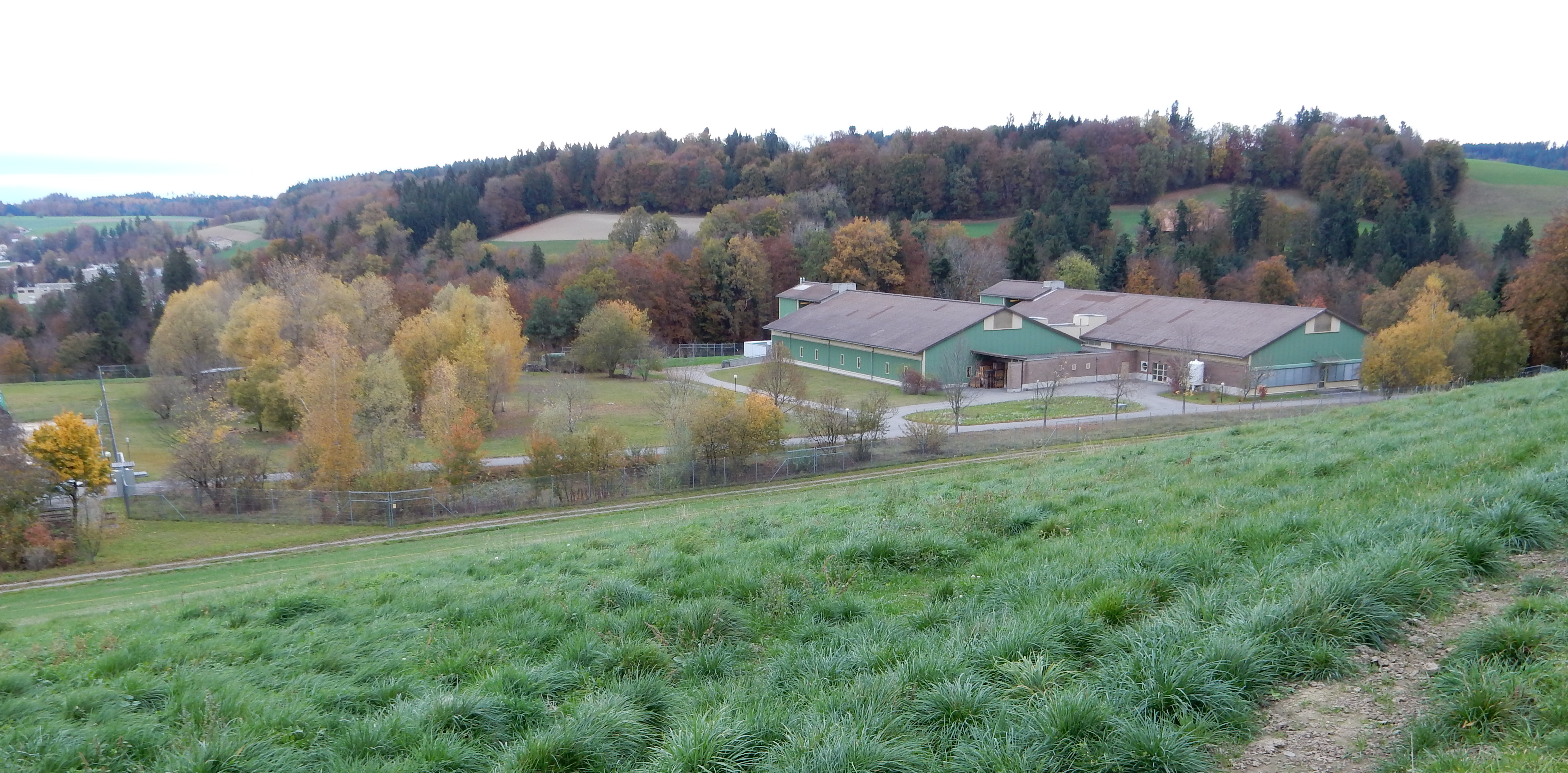 Institute of Virology and Immunology (IVI) in Mittelhäusern (Köniz/Switzerland). High-security laboratory with the capacity to diagnose and research highly contagious animal diseases.